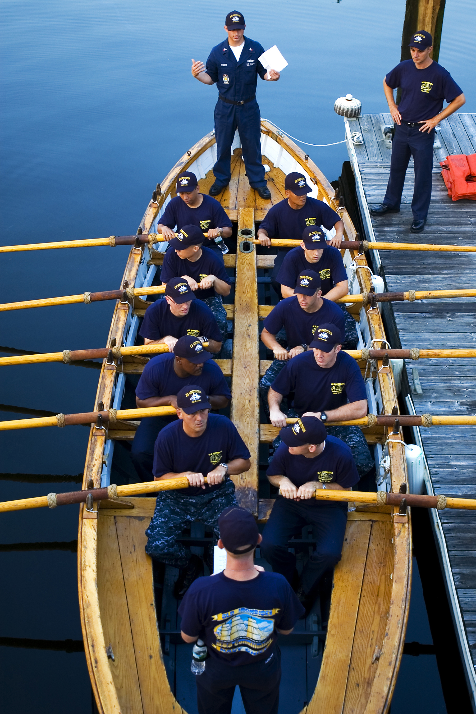 CHARLESTOWN, Mass. (Aug. 17, 2009) USS Constitution crewmember Boatswains Mate 2nd Class Garrett Renner guides a team of Navy chief selects in the port whaleboat of USS Constitution. Ships' crew and senior enlisted mentors use techniques from 18th century seamanship to instill more than 200 years of naval heritage in the Navy's newest chiefs during Constitution's annual Chief Petty Officer Heritage Week. About 140 selects from dozens of commands Navy-wide, including two Royal Navy Sailors, live and train aboard Constitution during one of their six weeks of chief petty officer induction training. (U.S. Navy photo by Mass Communication Specialist 2nd Class Clay Weis/Released)